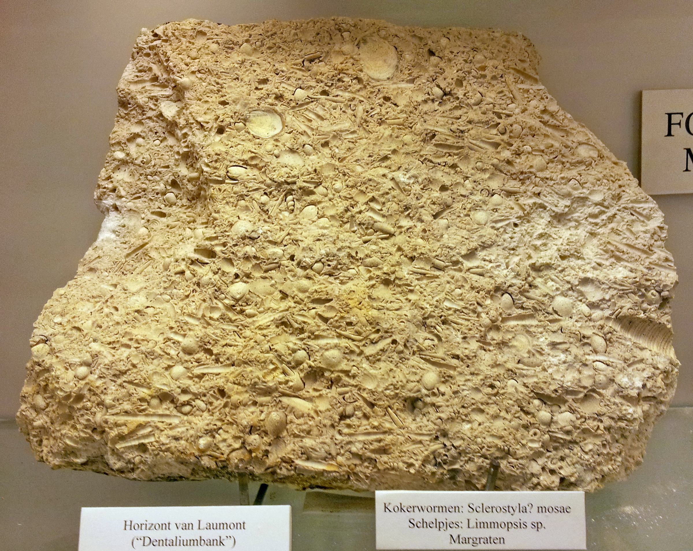 Maastricht limestone from Margraten with fossillized tube worms and small shells, fossil collection of Museum Het Land van Valkenburg, Limburg.